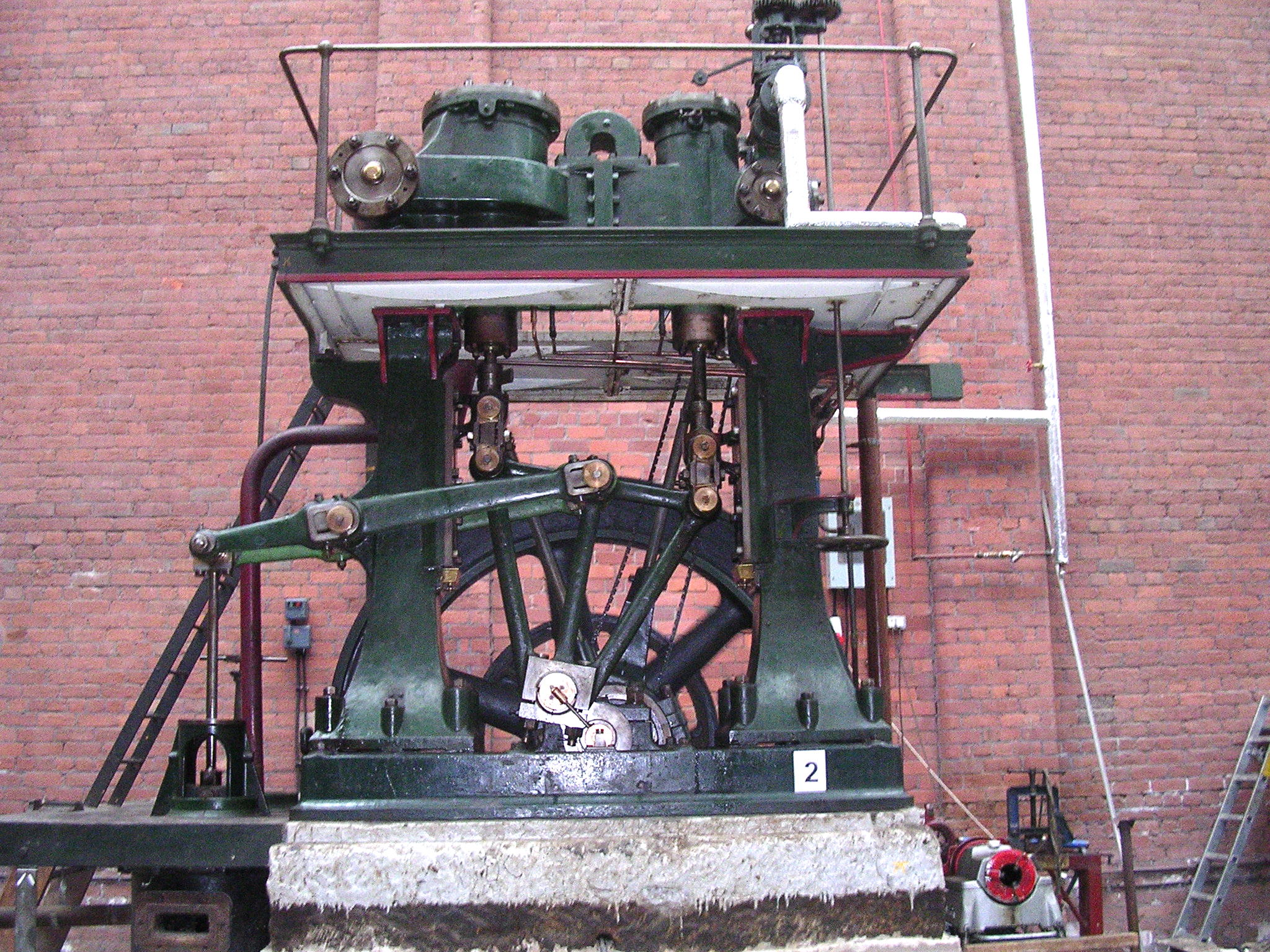 The cylinders are 10.5" and 16.5" bore, each with a stroke of 21". However due to the unusual design, the throw of the crank is only 18". The flywheel is 7ft 6ins in diameter and the engine ran a speed of 120 rpm. This type of engine was originally designed for marine use but John Musgrave of Bolton obtained a licence to build them as mill engines.This is believed to be the only large engine of its type to have survived.